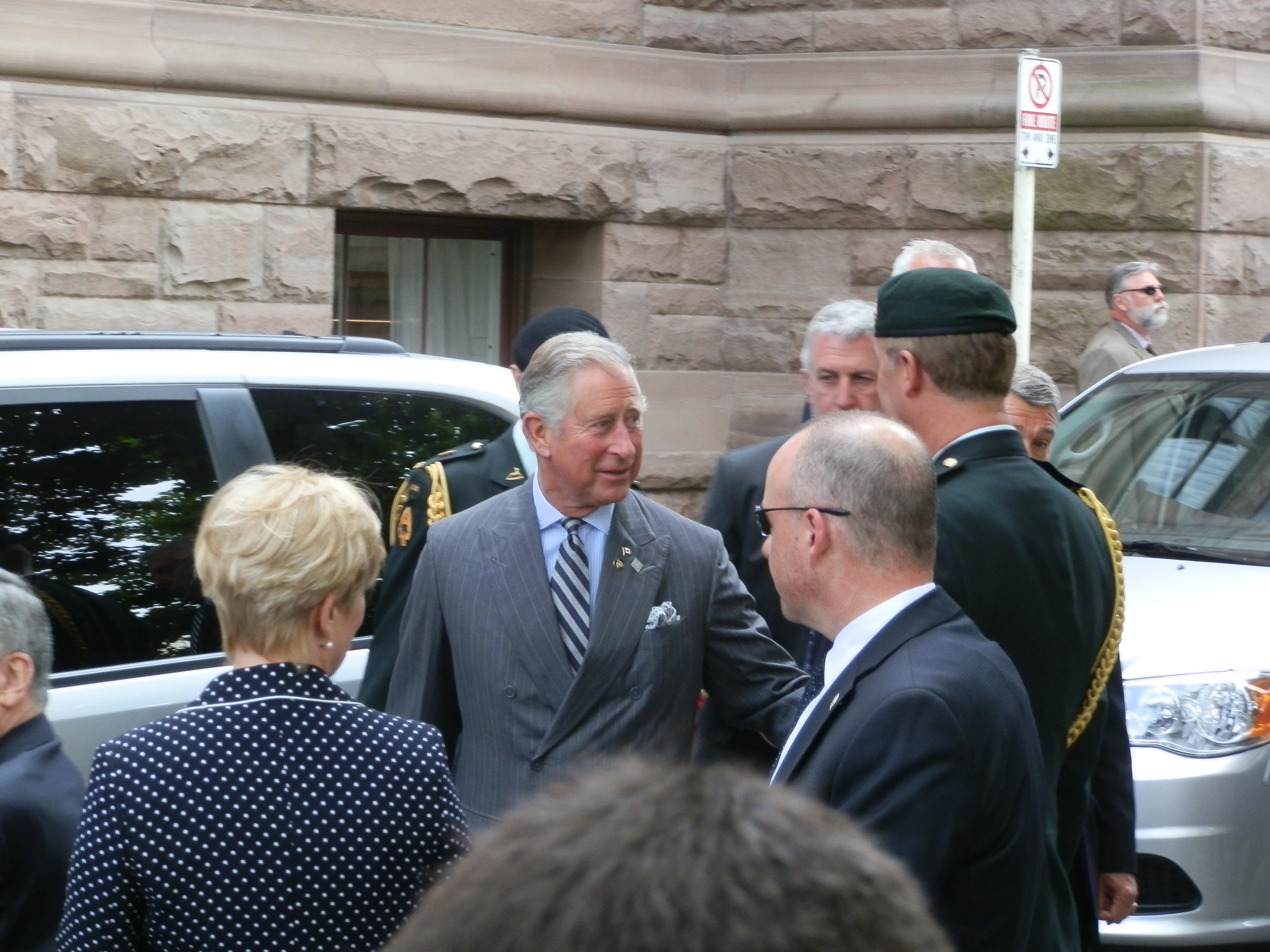 The Prince of Wales in Queen's Park